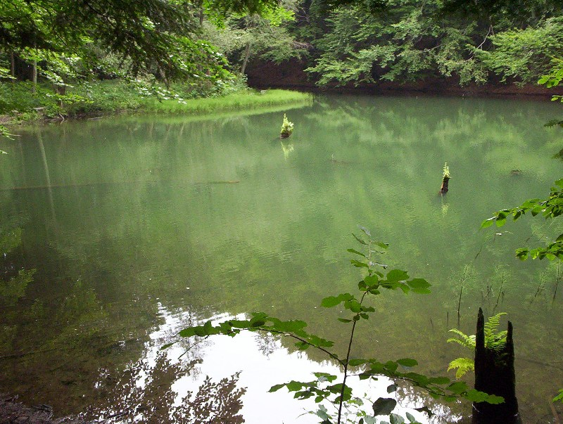 Duszatyn Lakes in nature reserve Zwiezło, under mountain Chryszczata (Bieszczady, Poland). The lower lake.